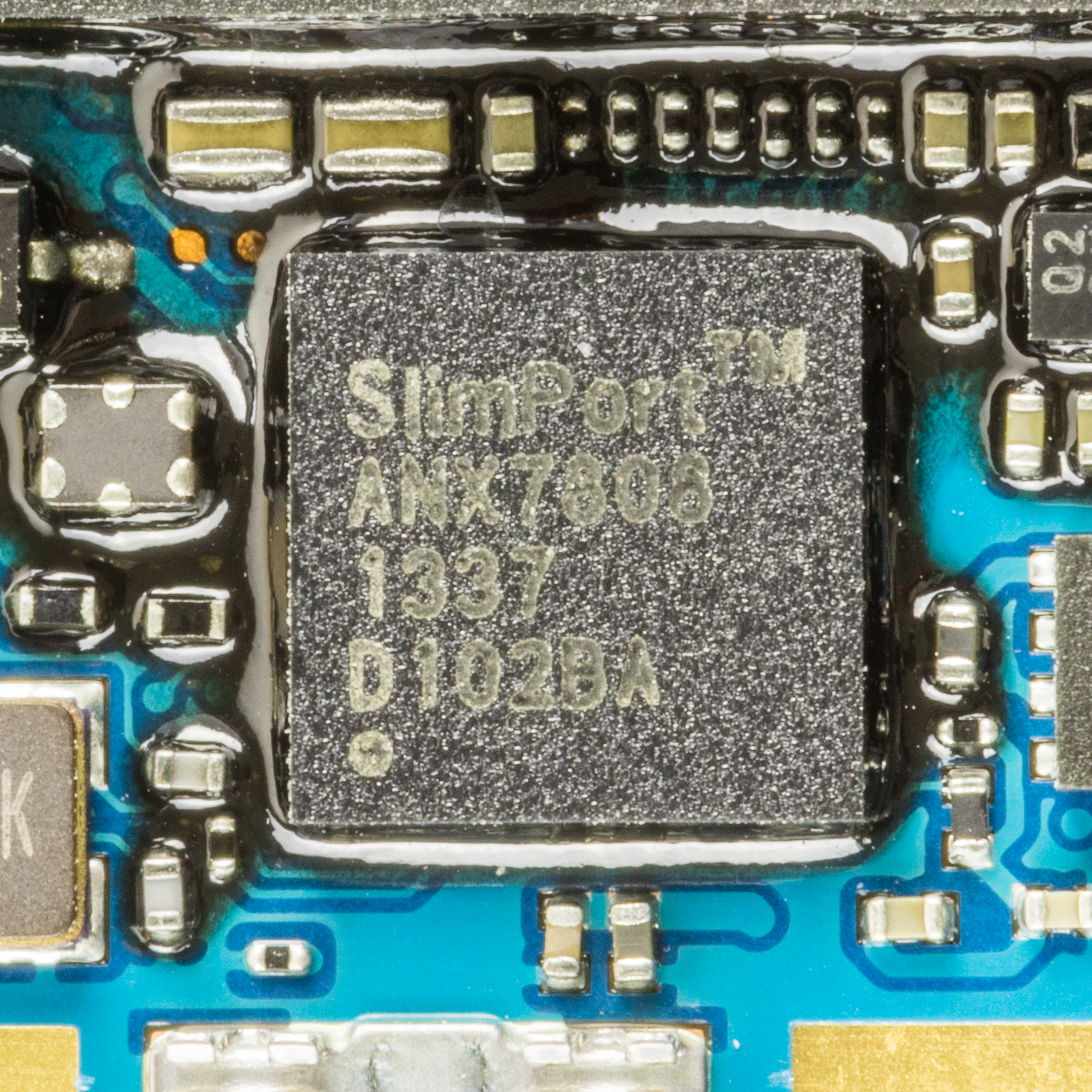 Nexus 5, 16 GB - motherboard - Analogix ANX7808 - SlimPort Transmitter. Package: VFBGA 49-ball